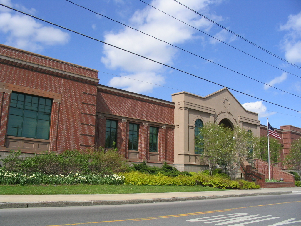 photo of the Baldwinsville Public Library in B'ville, NY, taken by me on May 7, 2004